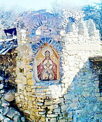 Bilinskimonastery BG